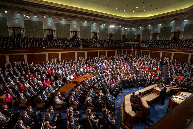 President Barack Obama delivers his State of the Union address to a joint session of the United States Congress in the House Chamber of the House of Representativesat the United States Capitol in Washington, D.C., Feb. 12, 2013. (Photo description)